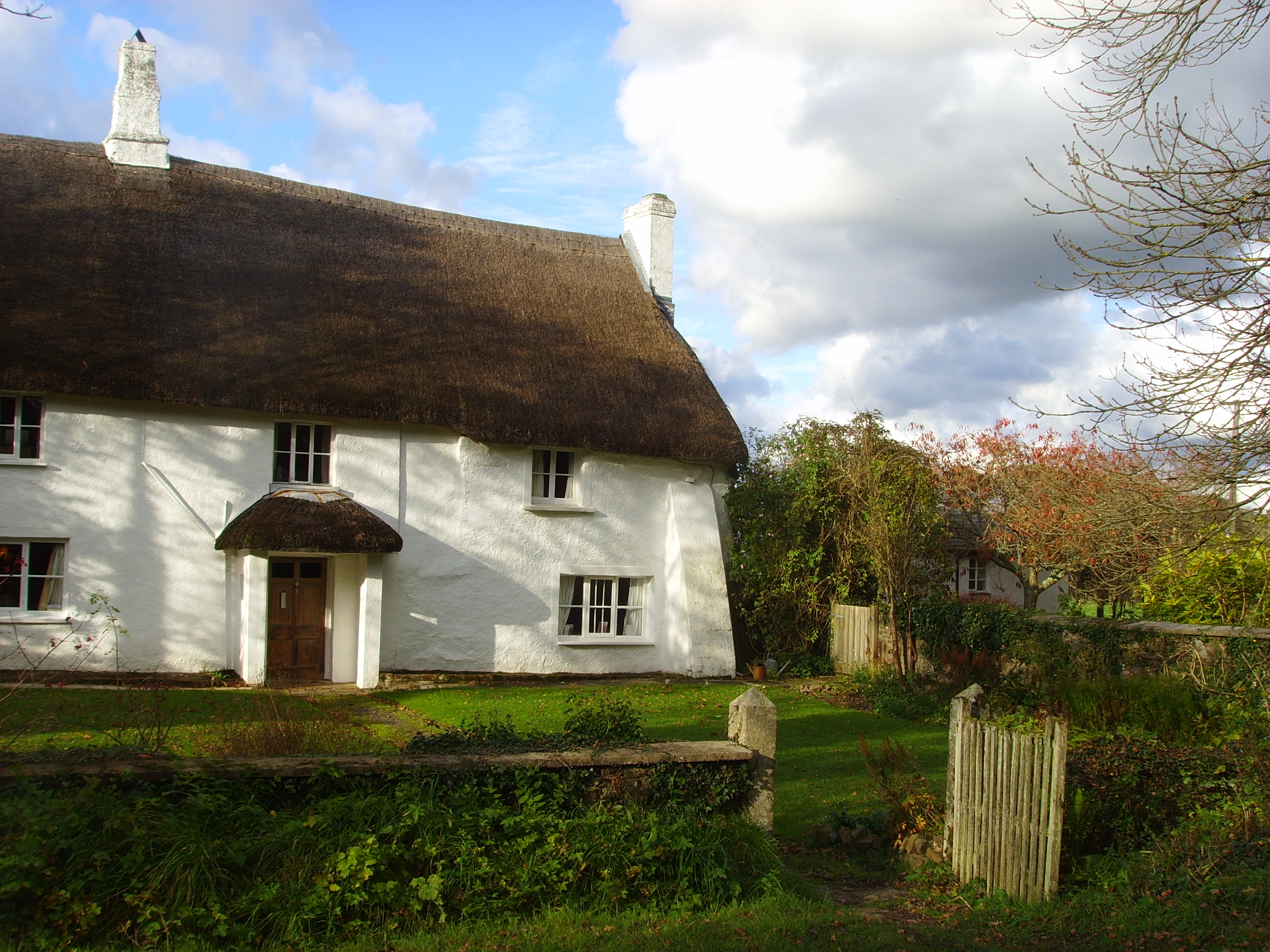 The front of Totleigh Barton Manor, Devon, one of the writing centres of the Arvon Foundation, a charitable organisation promoting creative writing.